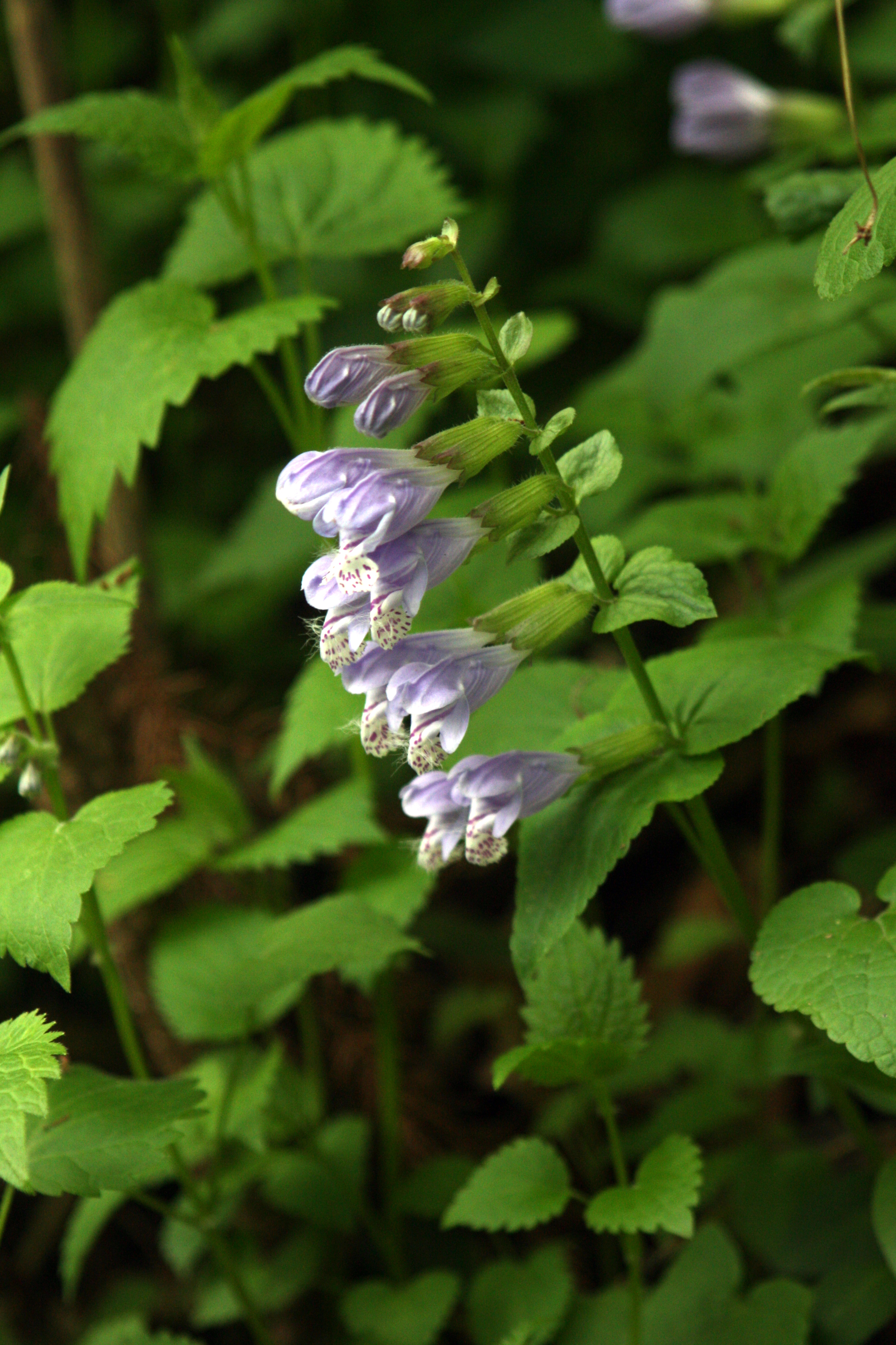 Meehania urticifolia